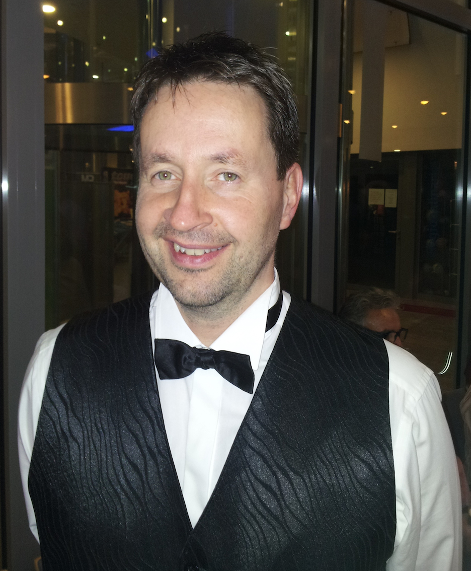 Christian Rudolph (carom player) at German Championship 2012 in Bad Wildungen